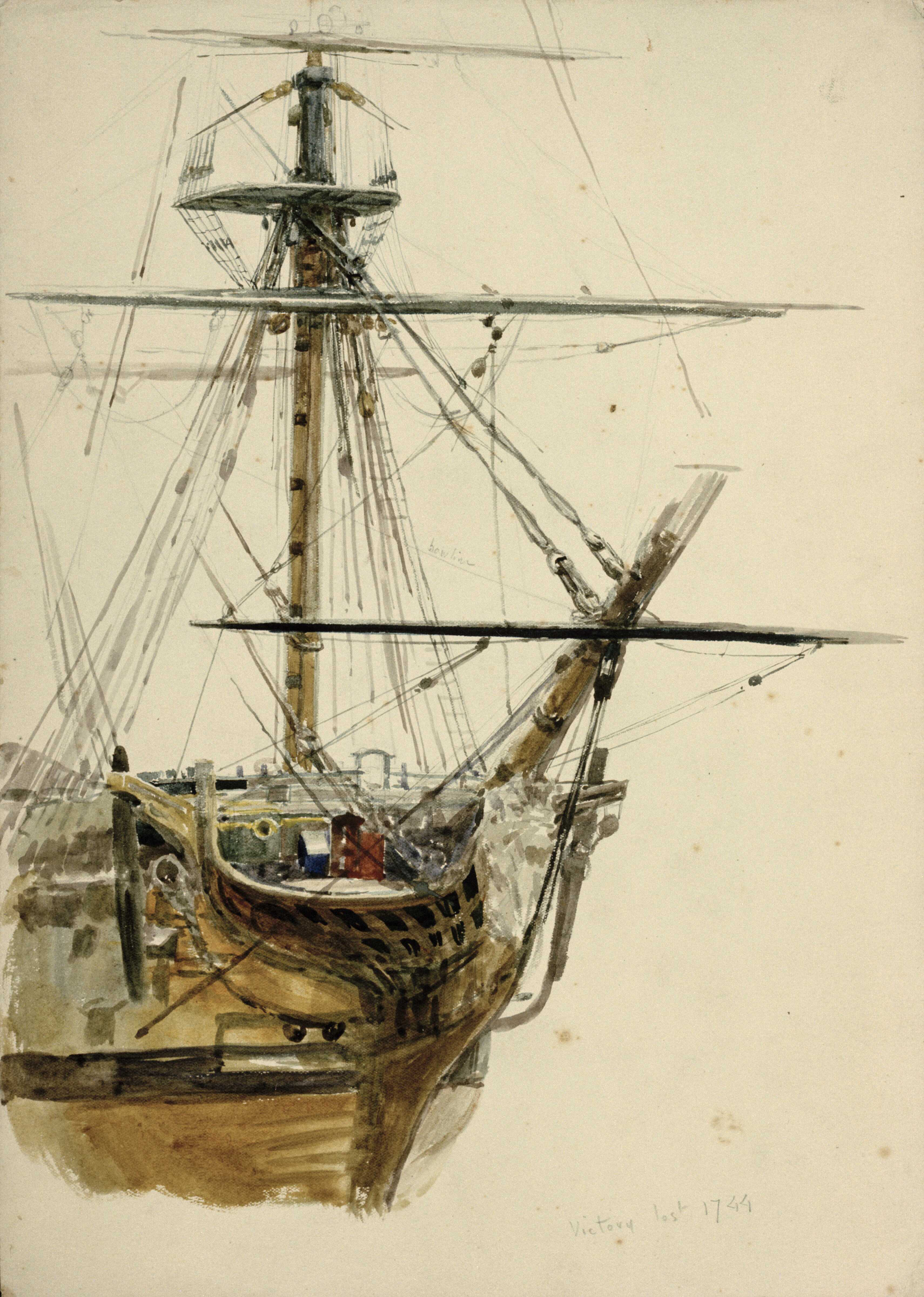 Victory lost 1744 Medium includes graphite. Possibly from the NMM model. Victory lost 1744